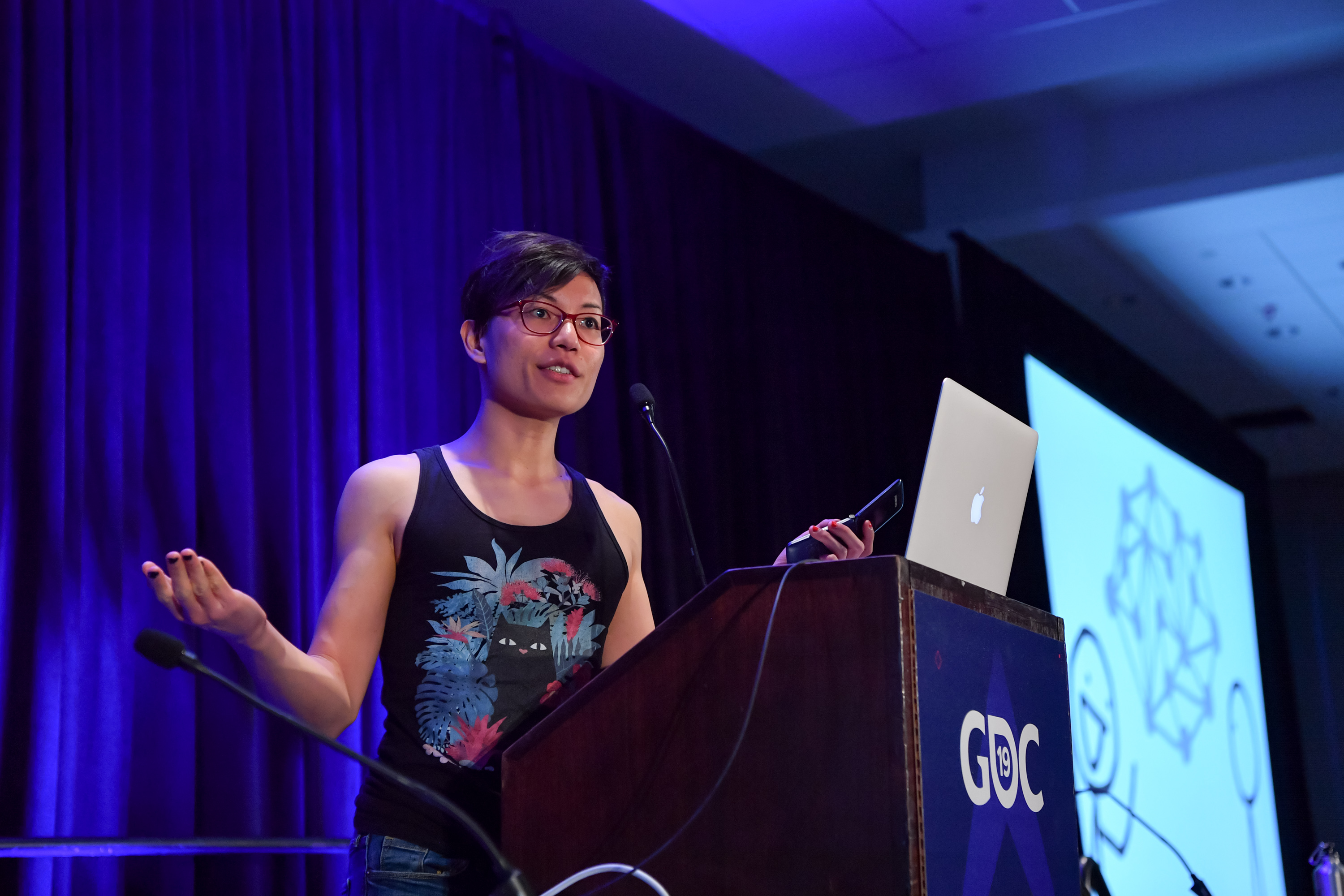 Nicky Case, indie game developer, giving a lightning talk at the Game Developers Conference 2019.